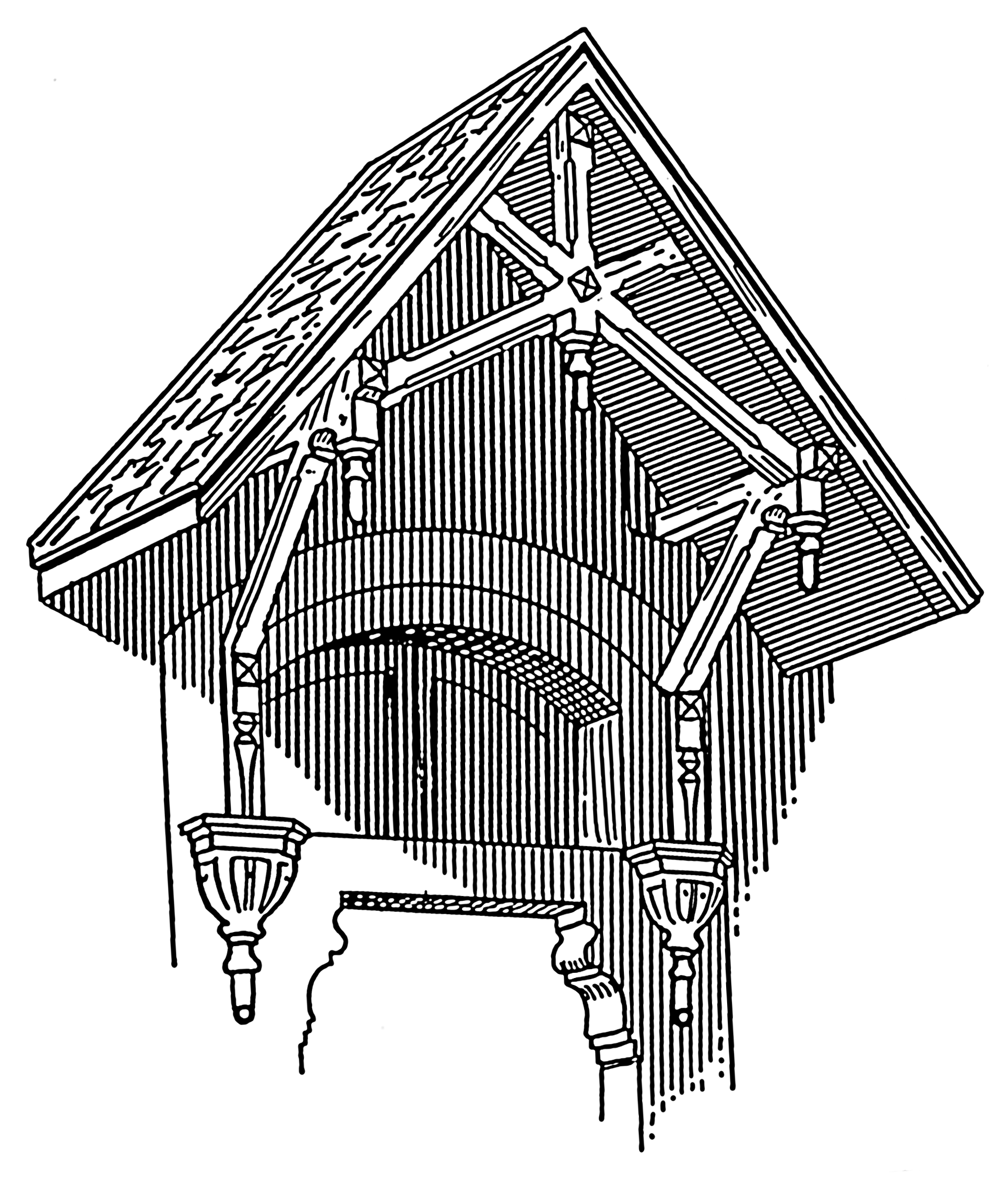 Line art drawing of a penthouse.